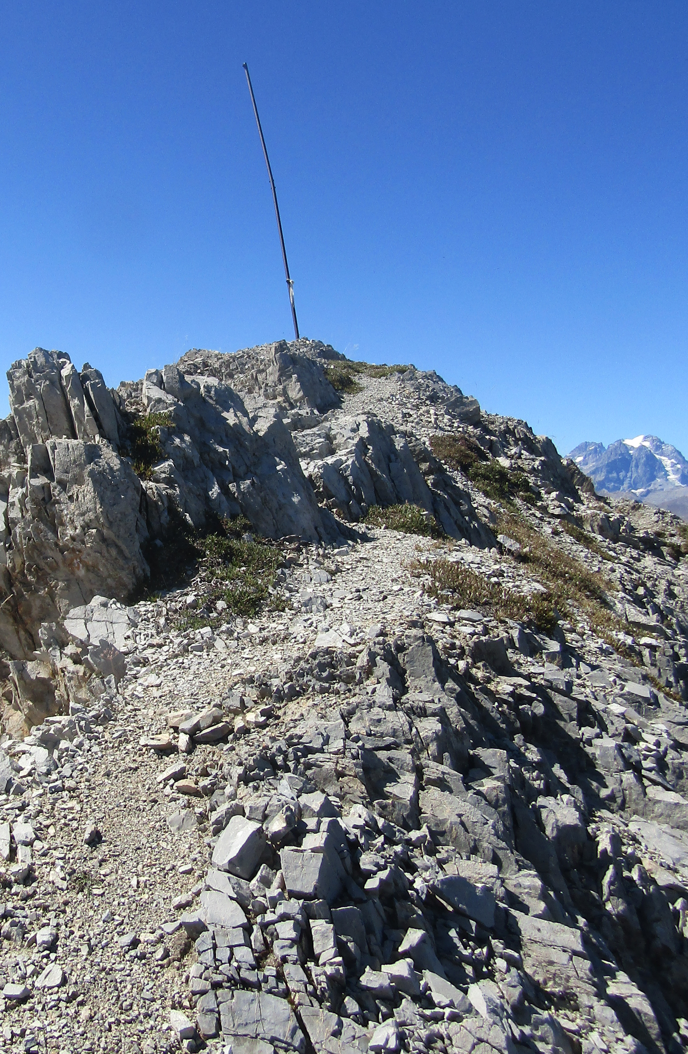 Sommet de Château Jouan (Cottian Alps, France) - the flagpole on is top